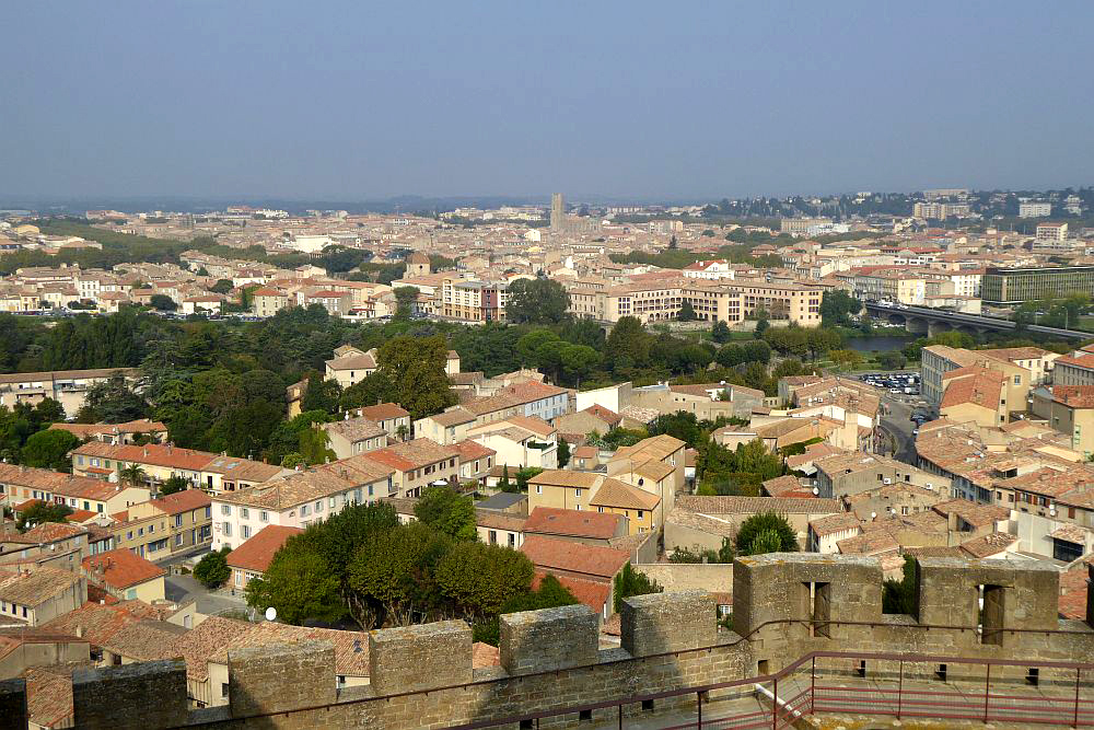 Carcassone